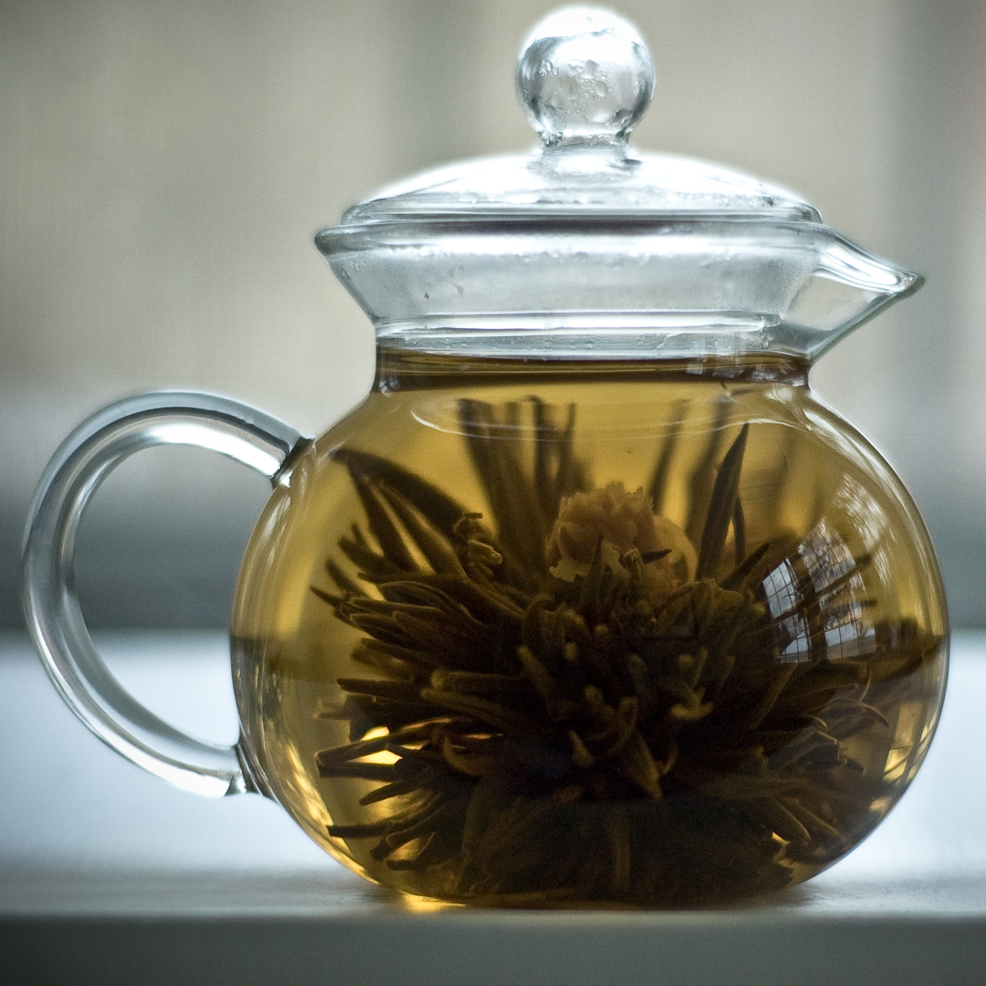 Numi flowering tea, after